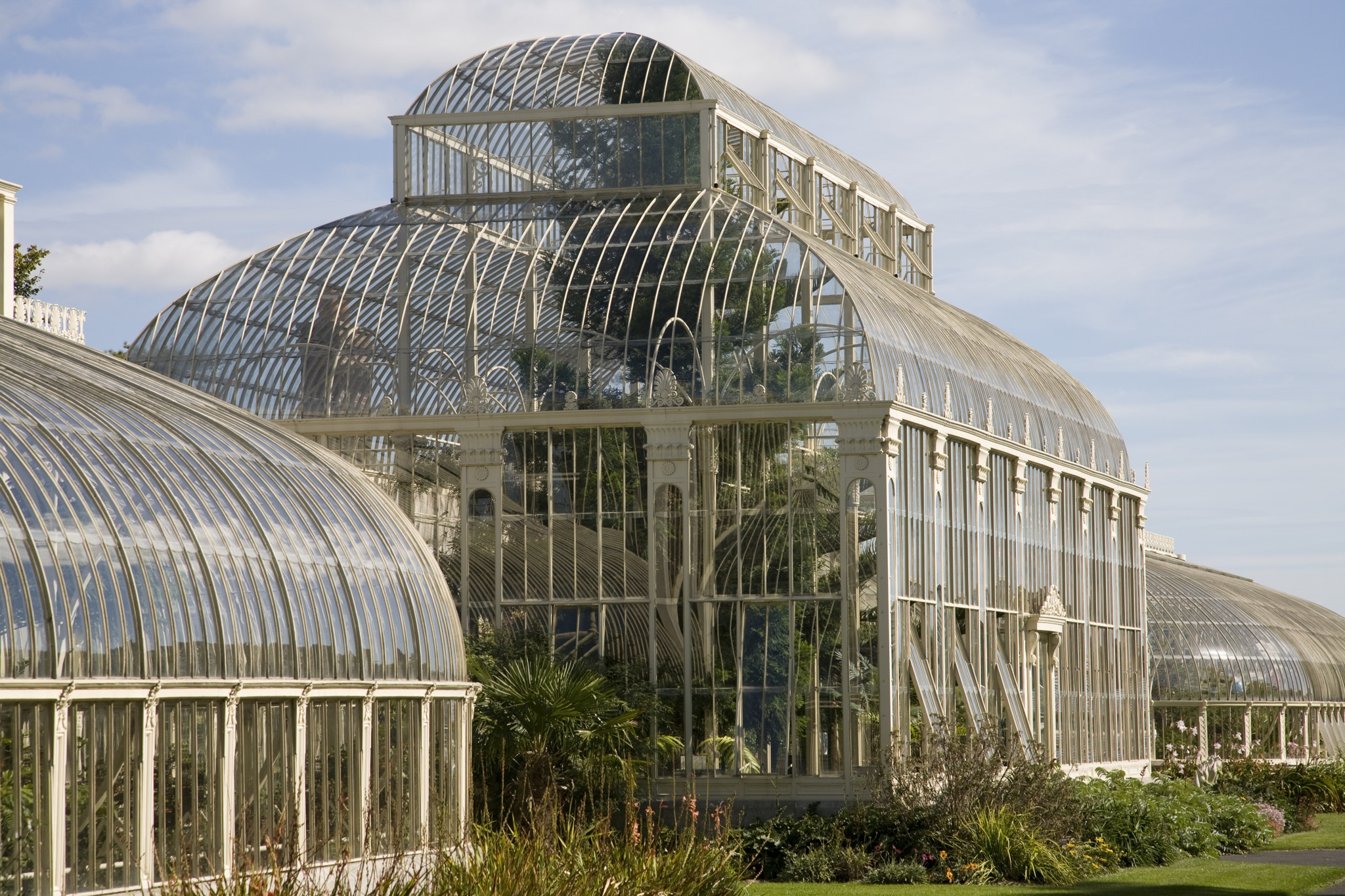 Greenhouses, Irish National Botanic Gardens, Glasnevin, Dublin, Ireland.